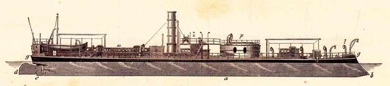 Zr. Ms. rammonitor Adder